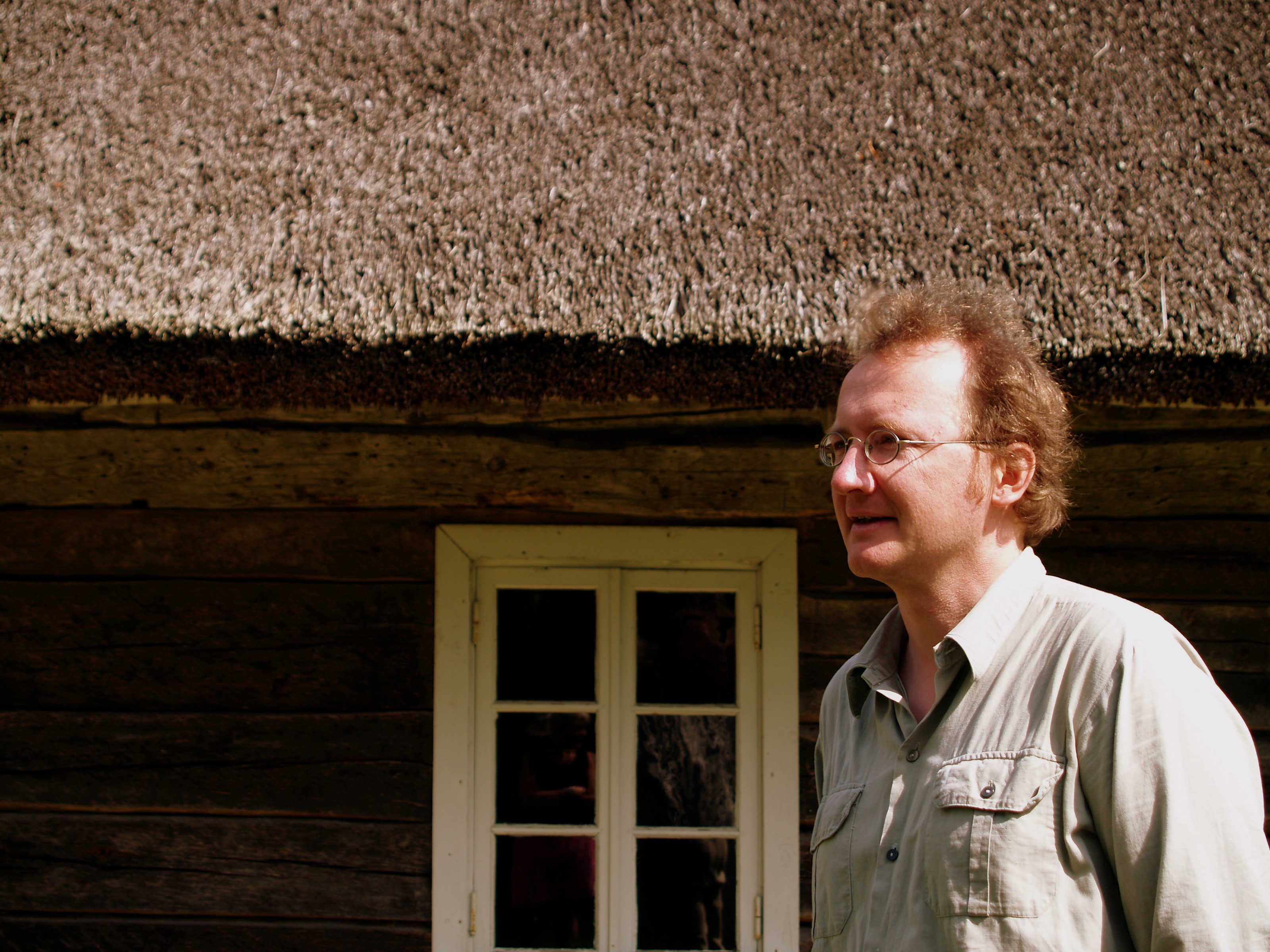 Milan Horák